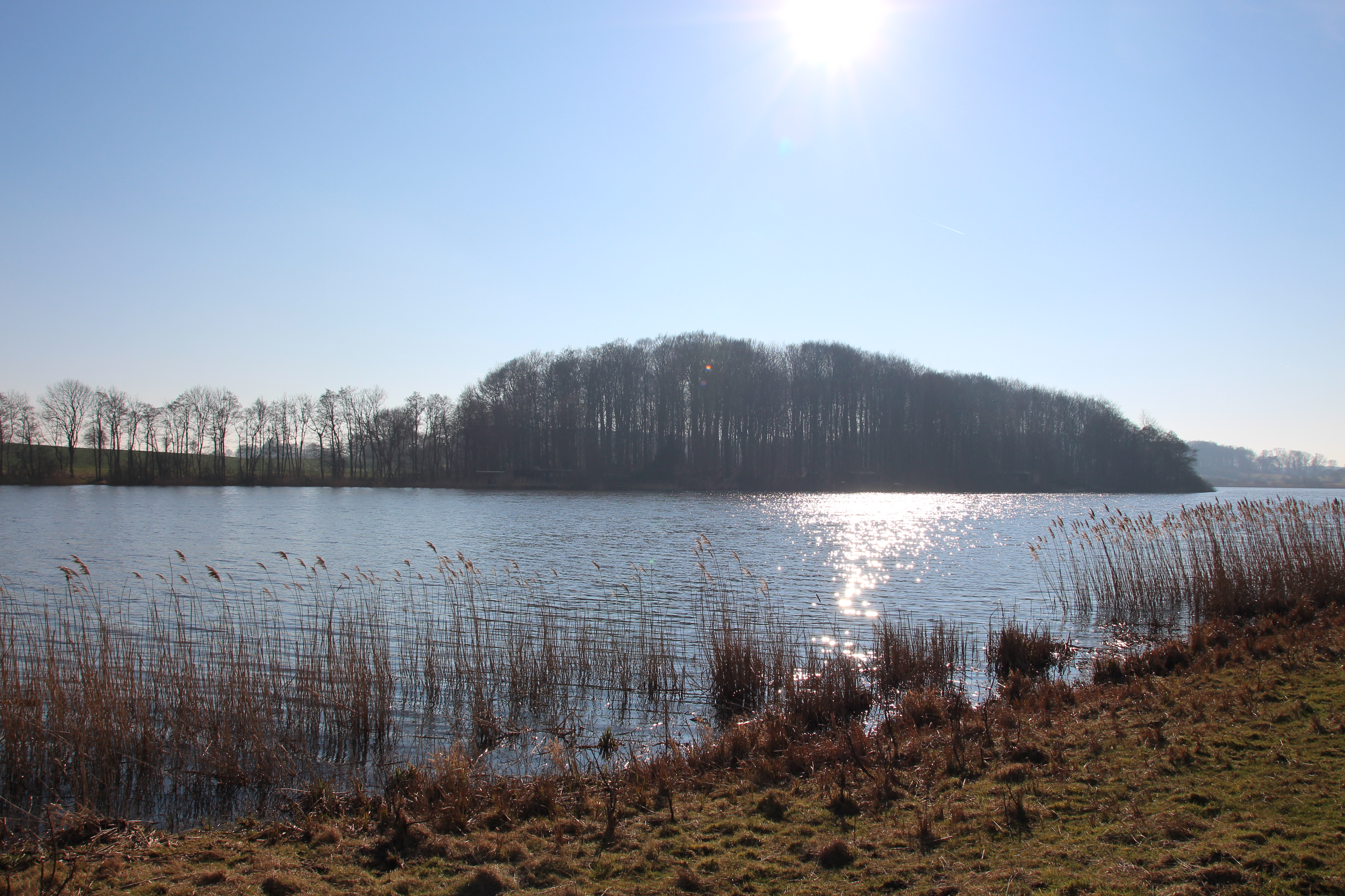 Winderatter Lake - Nature Reserve Schleswig-Holstein